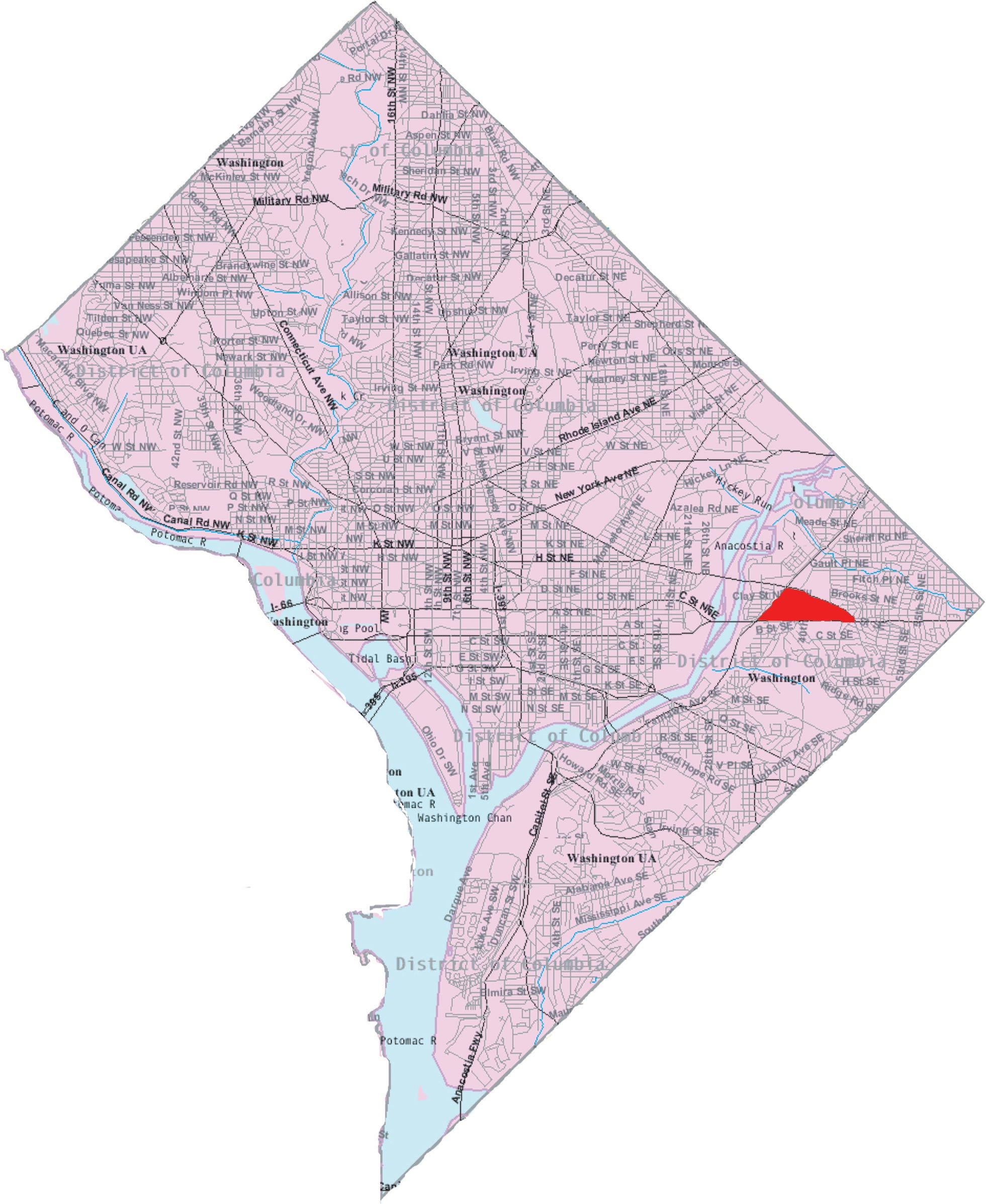 This image is a modified version of a self-generated reference map from the U.S. Census Bureau's American Factfinder at by Wikipedia user Msclguru.